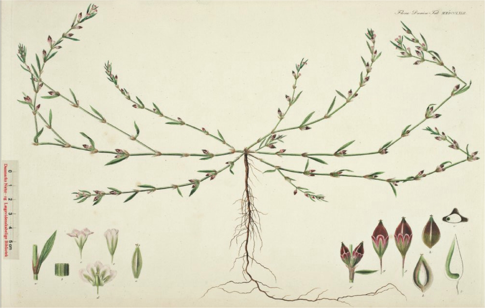 Polygonum oxyspermumsubsp. raii